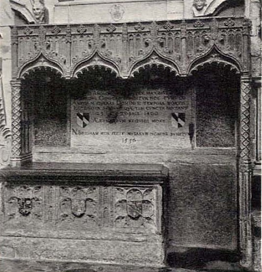 Chaucers tomb in Westminster